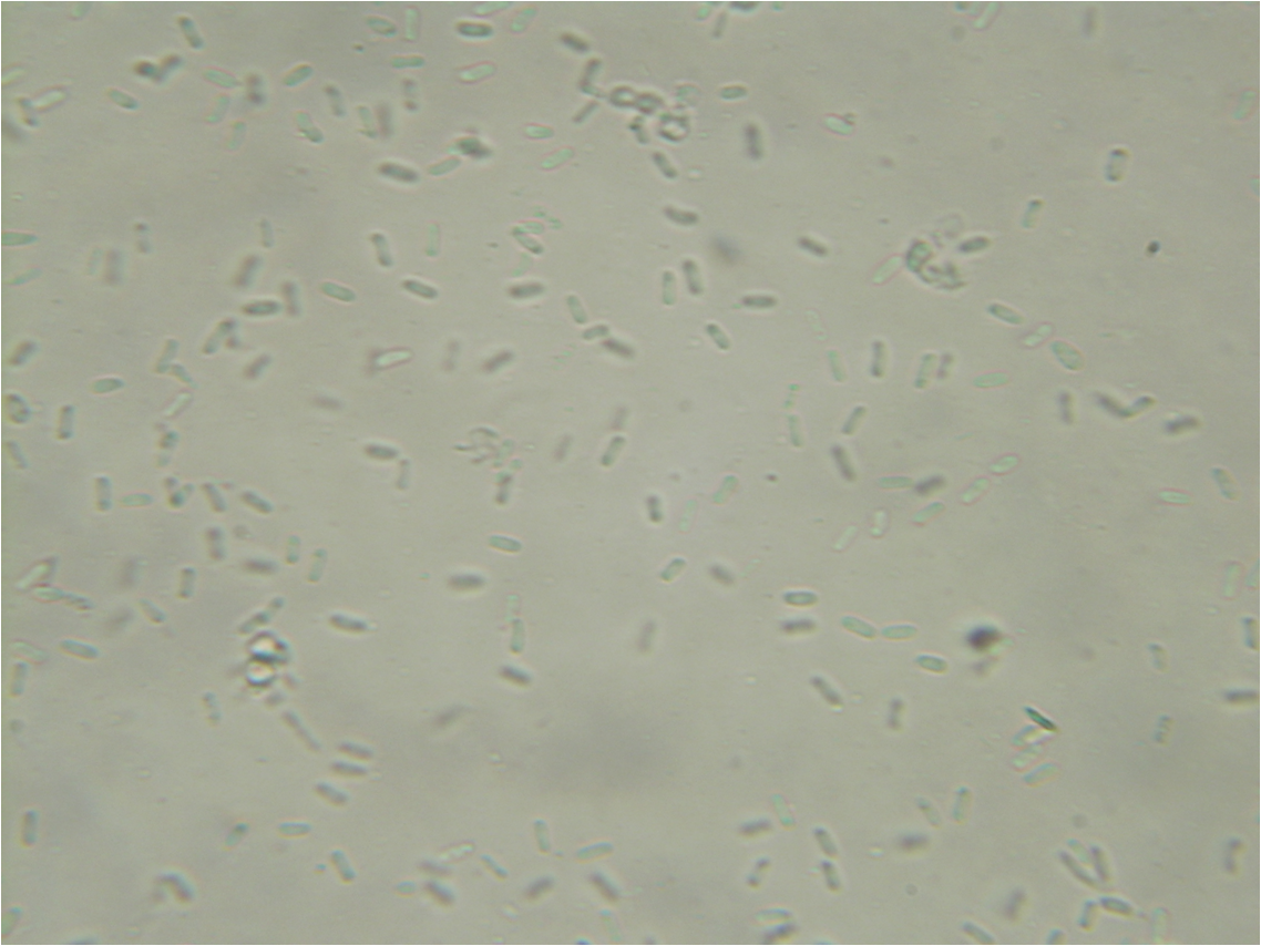 Phoma exigua spores magnified 160X. Identified using Barnett, H. L. & Hunter, B. B. (1998) Illustrated Genera of Imperfect Fungi. APS Press: St. Paul, MN; pp. 162–3 ISBN 0-89054-192-2. Recovered from green bean (Phaseolus vulgaris L.). Host status confirmed using Farr, D. F., Bills, G. F., Chamuris, G. P., & Rossman, A. Y. (1995) Fungi on Plants and Plant Products in the United States. APS Press: St. Paul, MN; pp. 209–11 ISBN 0-89054-099-3.